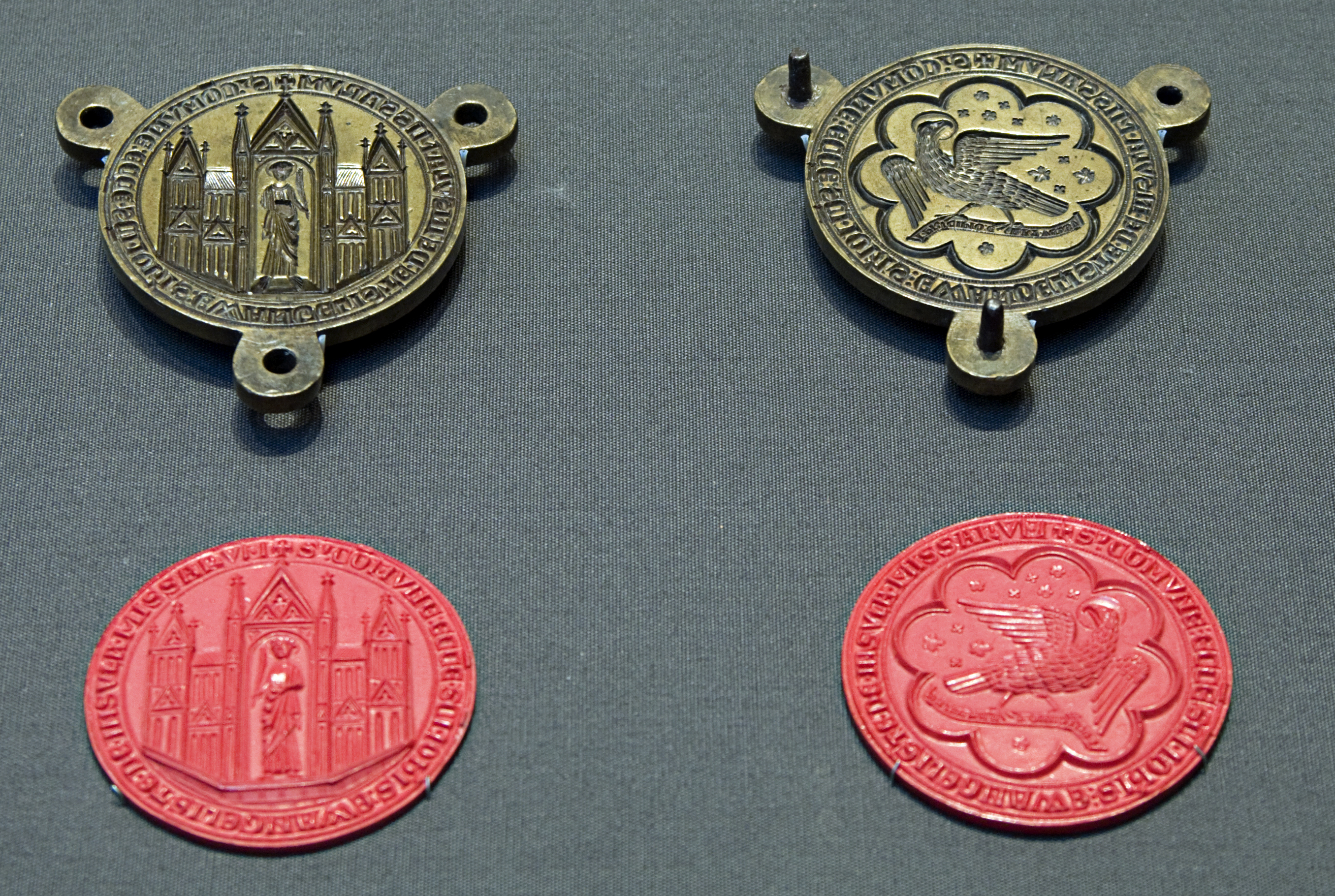 Medieval English seal now in the British Museum. Tag on exhibit reads: "Seal of Inchaffrey Abbey" and "About 1260-1300. England. Bronze. PE 1917,1110.1 Given by Sir M. Rosenheim." See BM database entry for more details.